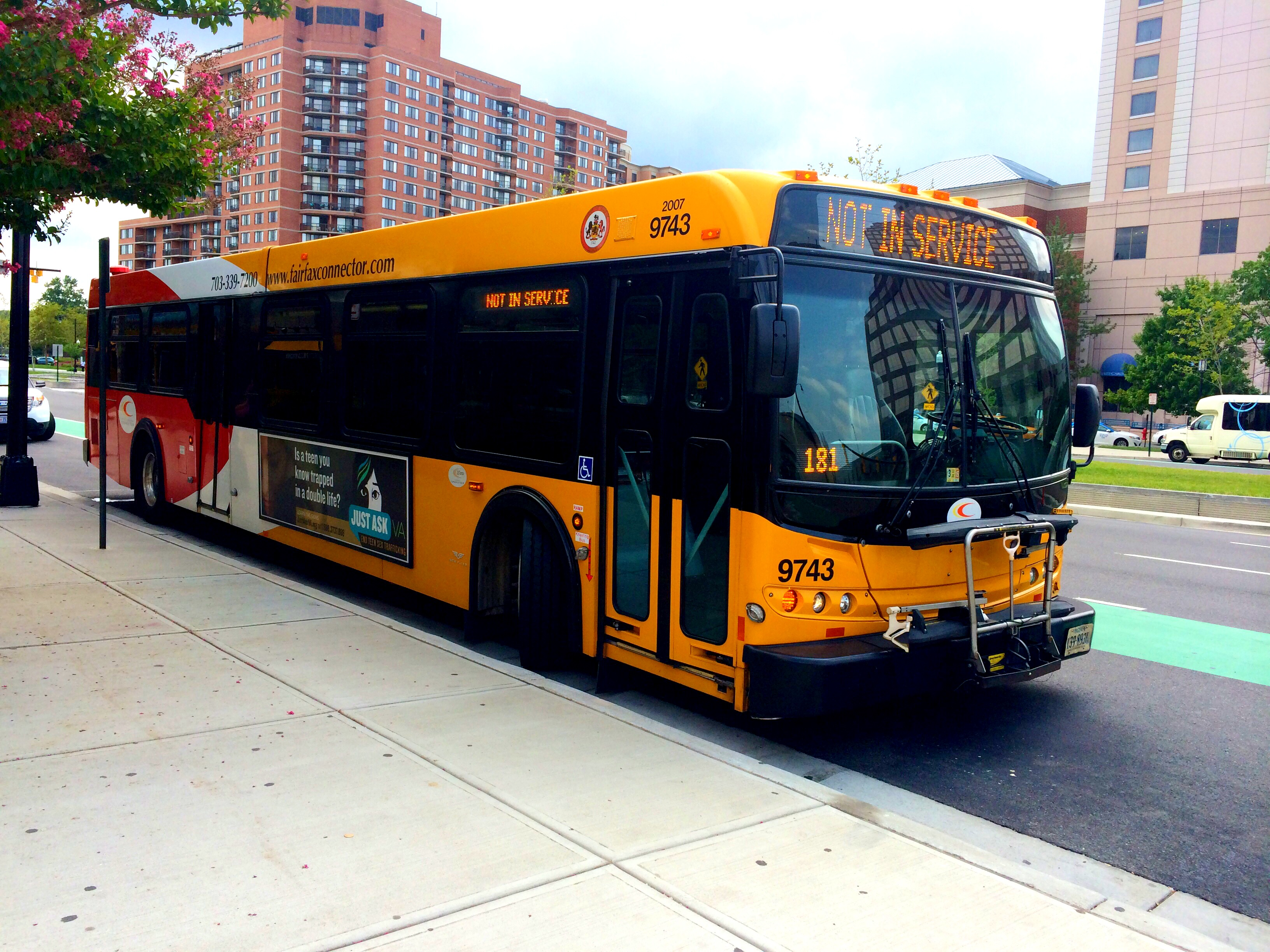 A Fairfax Connector New Flyer D40LFR at Pentagon City Station